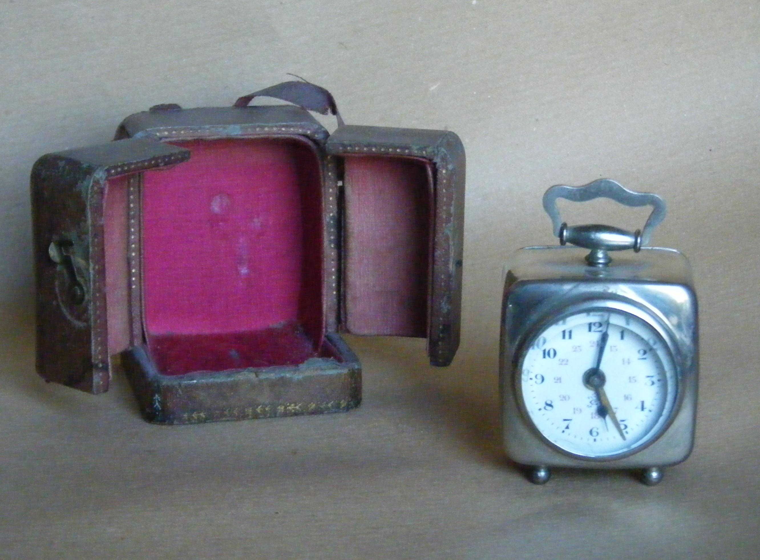 Vintage alarm clock (XIX cent.)